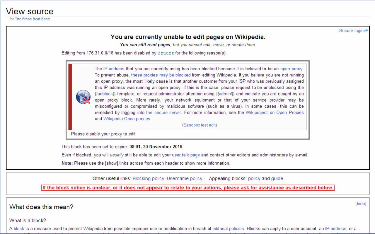 Screenshot of the block for 176.31.0.0/16 range belonging to a French hosting provider “OVH ISP”, whose services are frequently used to commit Internet abuse/crime.